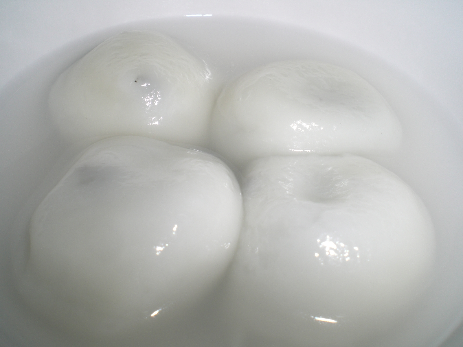 甜食zh:湯圓